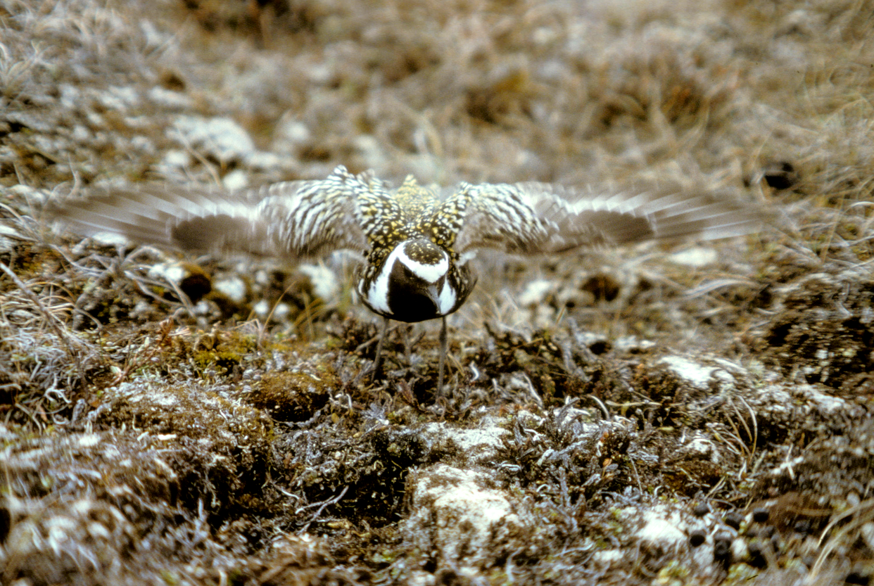 American Golden Plover Pluvialis dominica feigning injury at nest, Teshekpuk Lake, North Slope of Alaska.